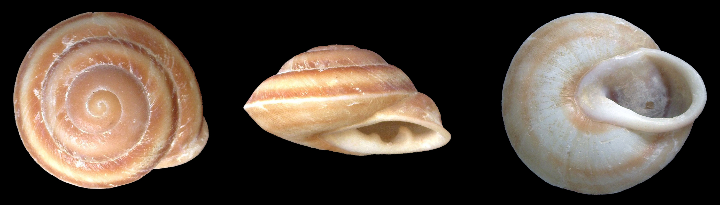 specimen length = 20.5 mm